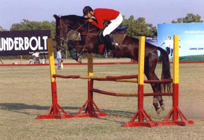 Marwari horse Ashlay Jumping the hight of 110 at, Jodhpur polo ground, India.